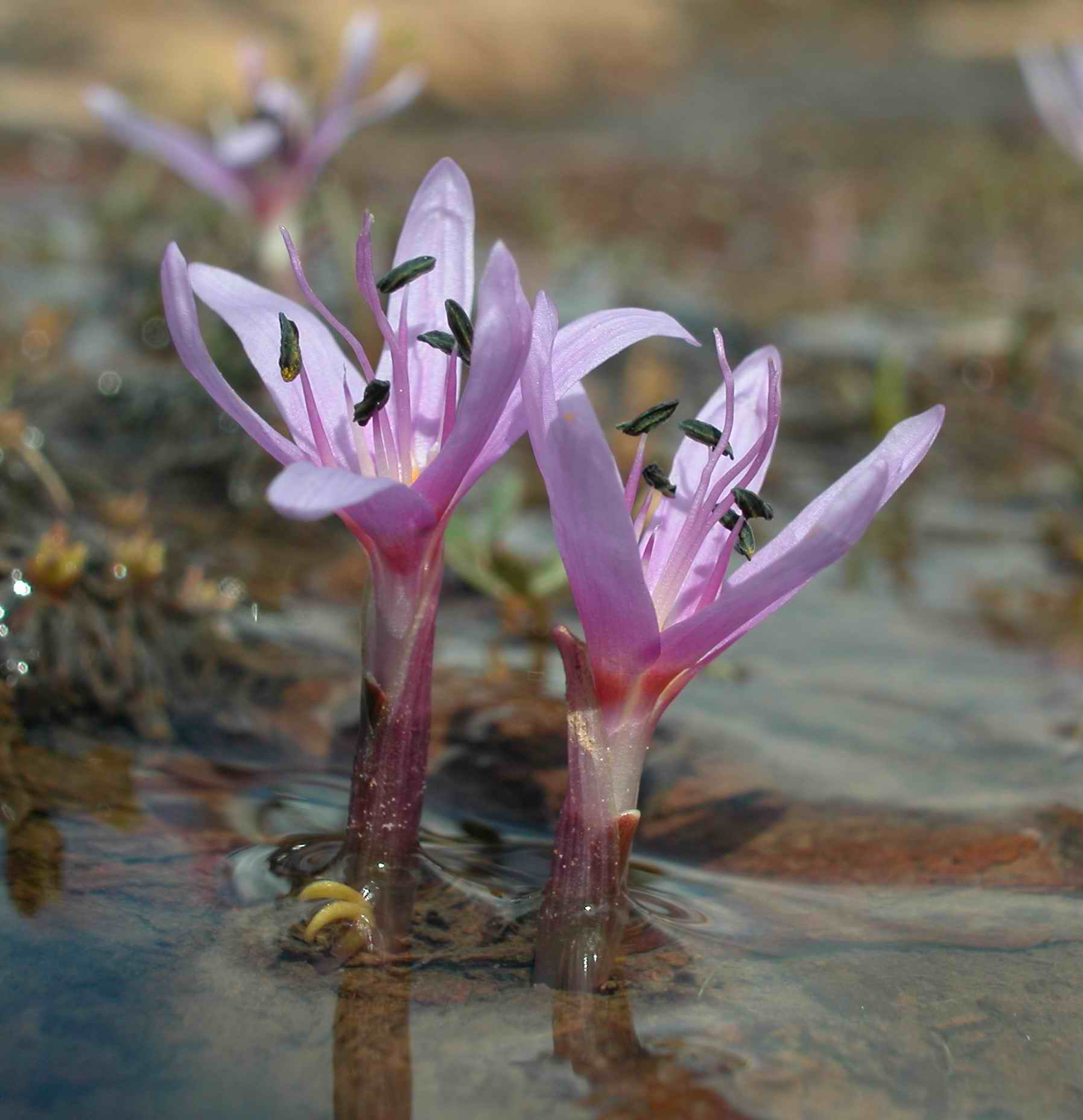 Colchicum figlalii (Ö. Varol) Parolly & Eren from Sandras Dag (Turkey)